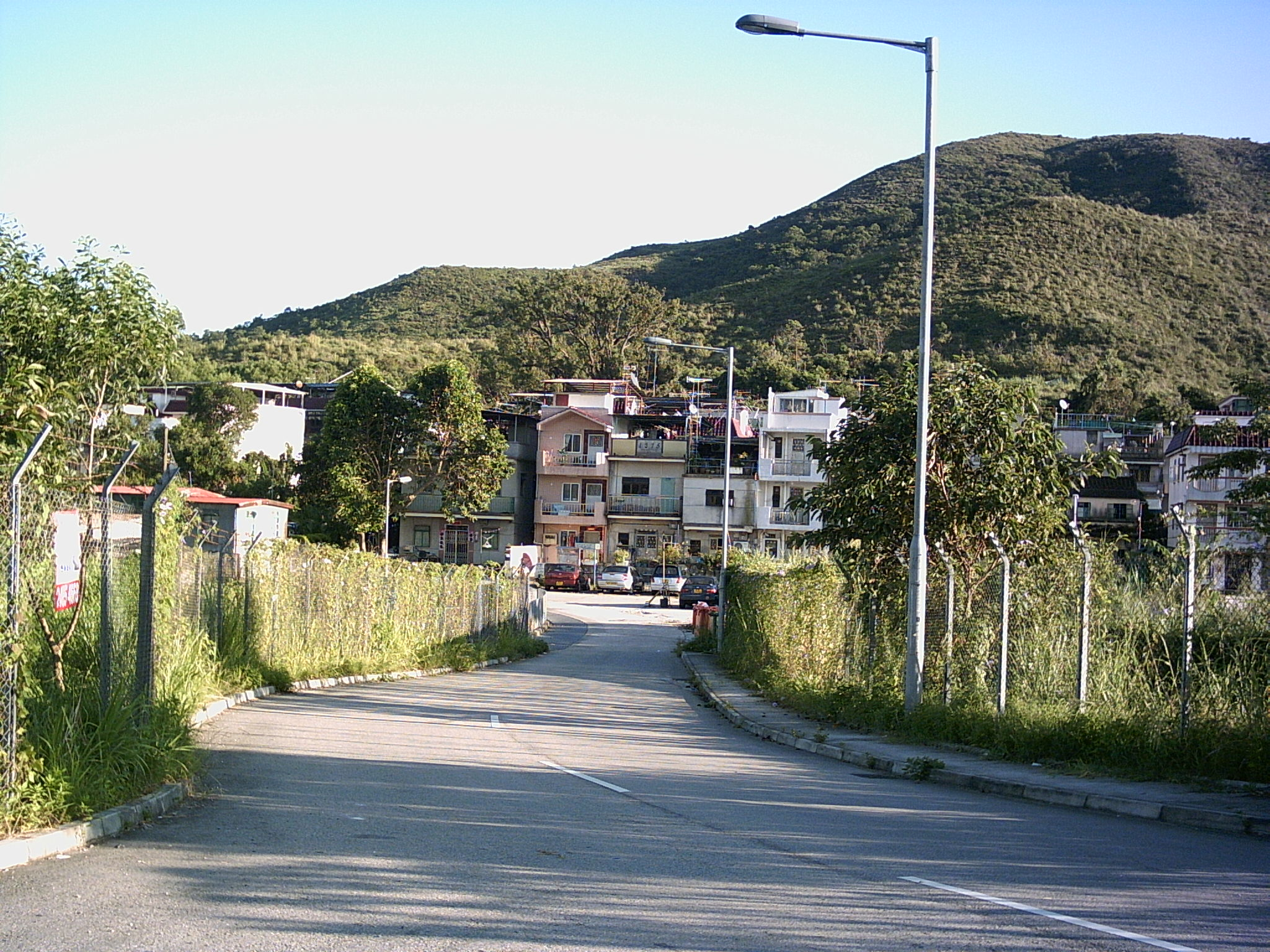 Siu Hang Tsuen in Sheung Shui. Taken by myself in August, 2006.